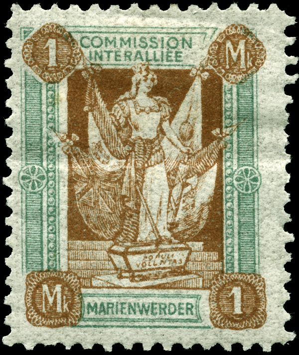 Marienwerder 1-mark stamp of 1920, first version of inscriptions